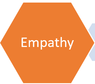 Empathy